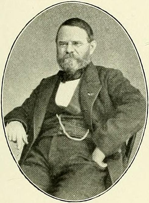 Portrait of the German botanist Julius Carl Hasskarl